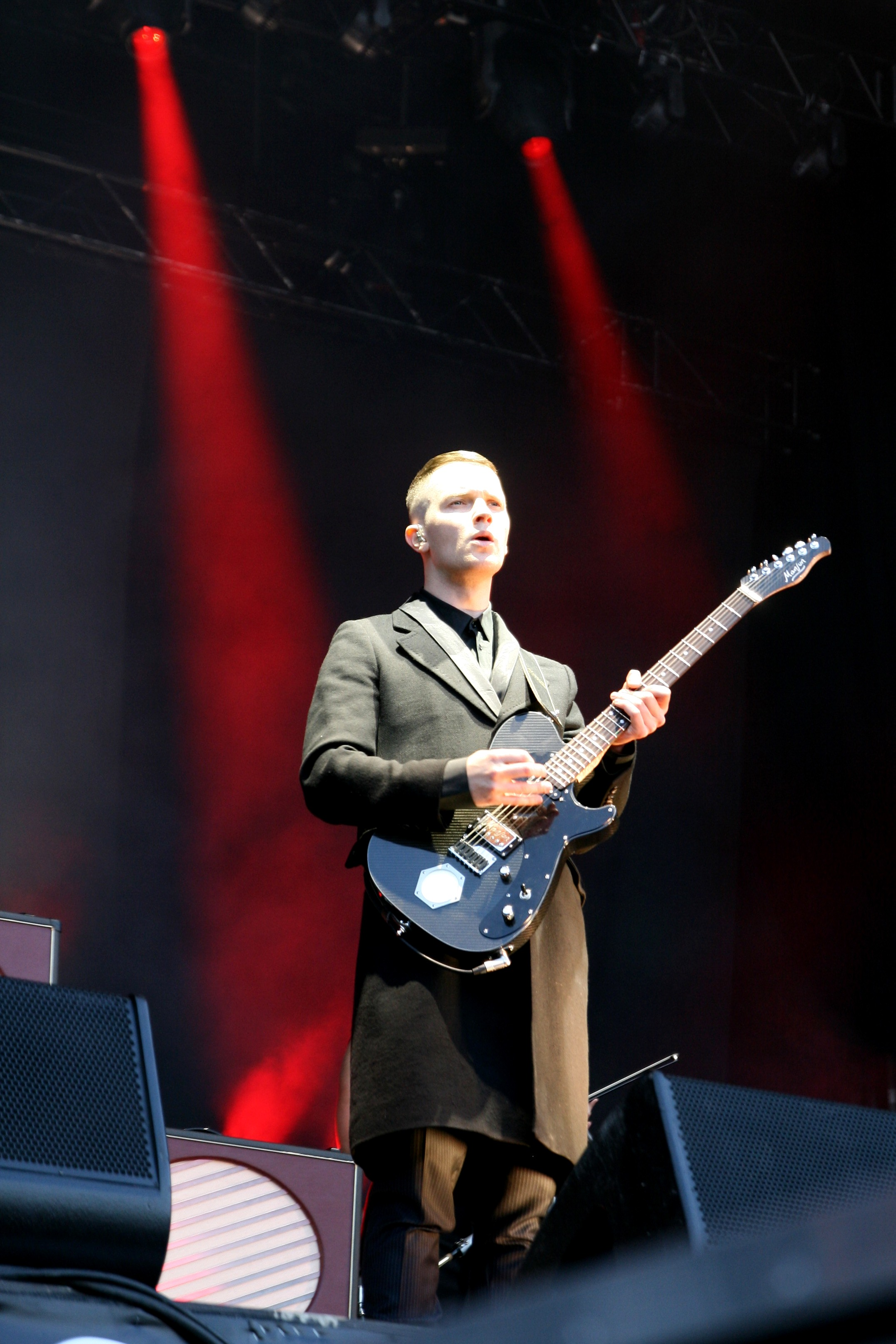 Adam Anderson, guitarist and synthesist of Hurts, stands on the Alterna Stage of Rock im Park-Festival 2013. Festivalsommer This photo was created with the support of donations to Wikimedia Deutschland in the context of the CPB project "Festival Summer".